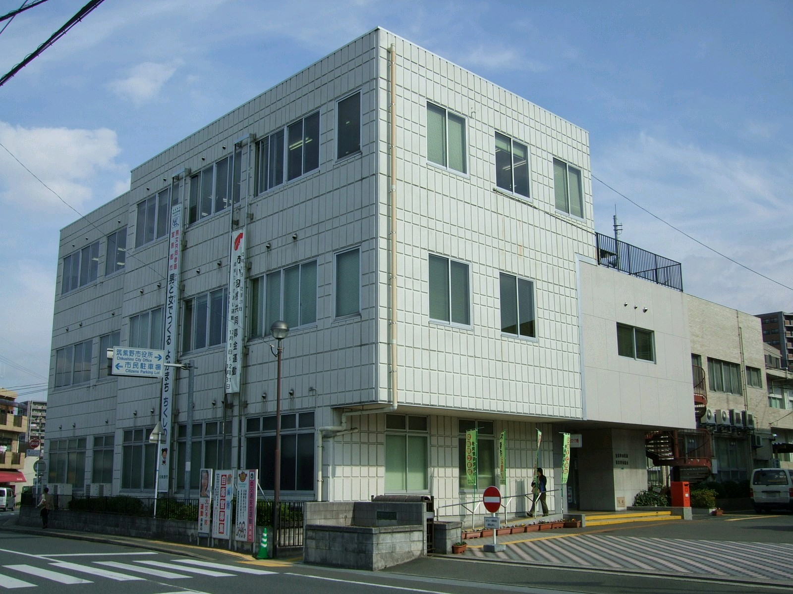 Chikushino City Hall, Fukuoka Prefecture, Japan